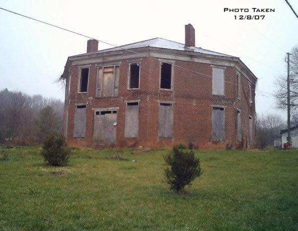 Photograph of the Abijah Thomas Octagon House located in the Thomas Bridge area near Marion VA. This house was completed in 1857. Currently the house is condemned but still stands.